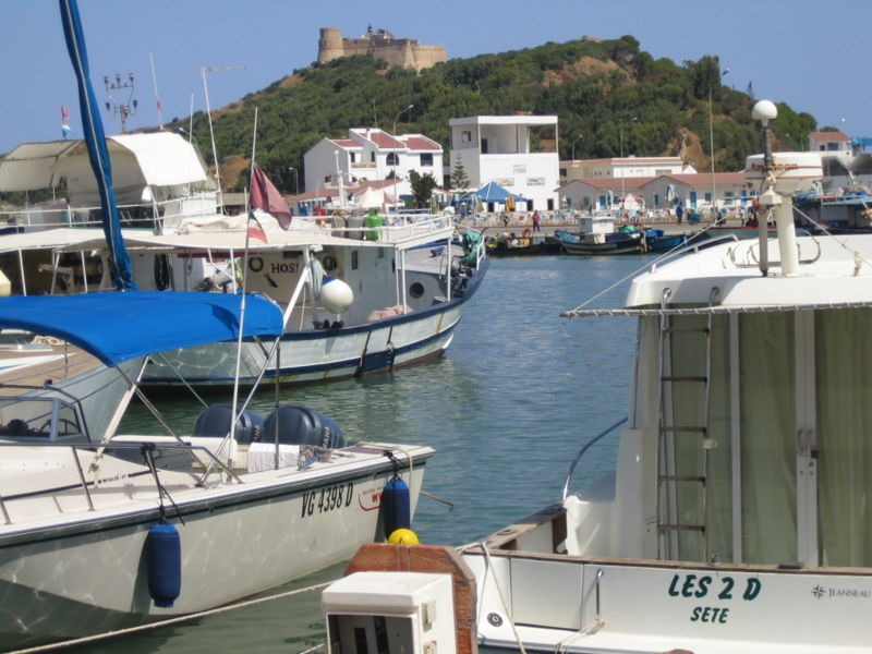 A view from Tabarka port.